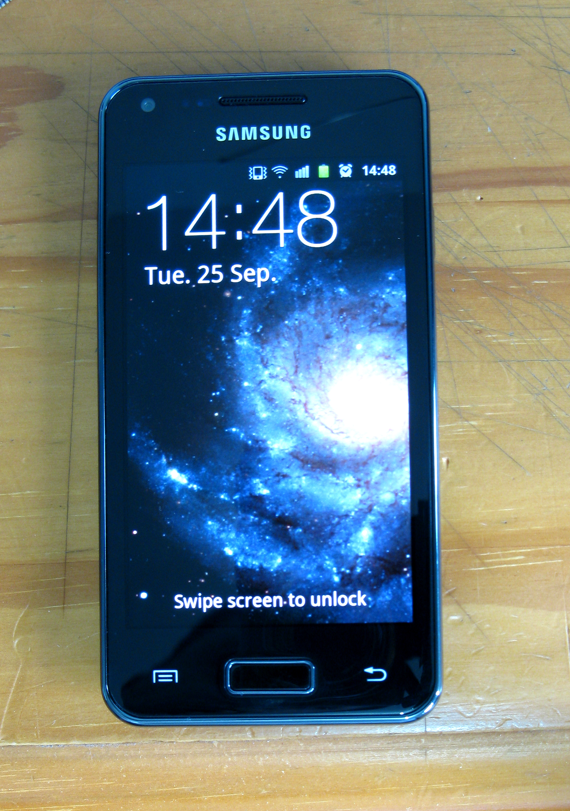 Image of a Samsung Galaxy S Advance i9070 smartphone model